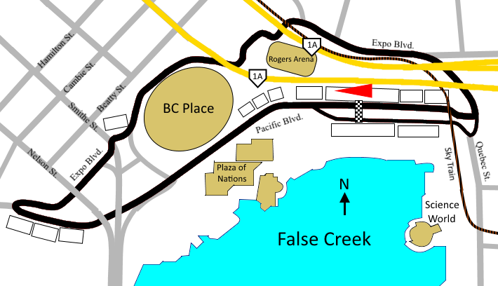 IndyCar Vancouver race circuit from 1990-1997.